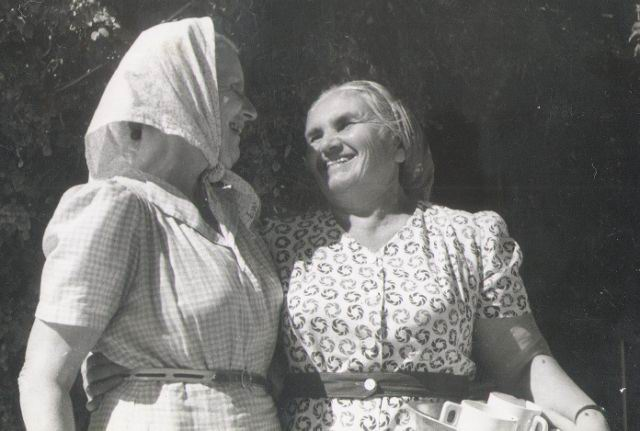 Kayla Giladi and Hava Alon Osishkin